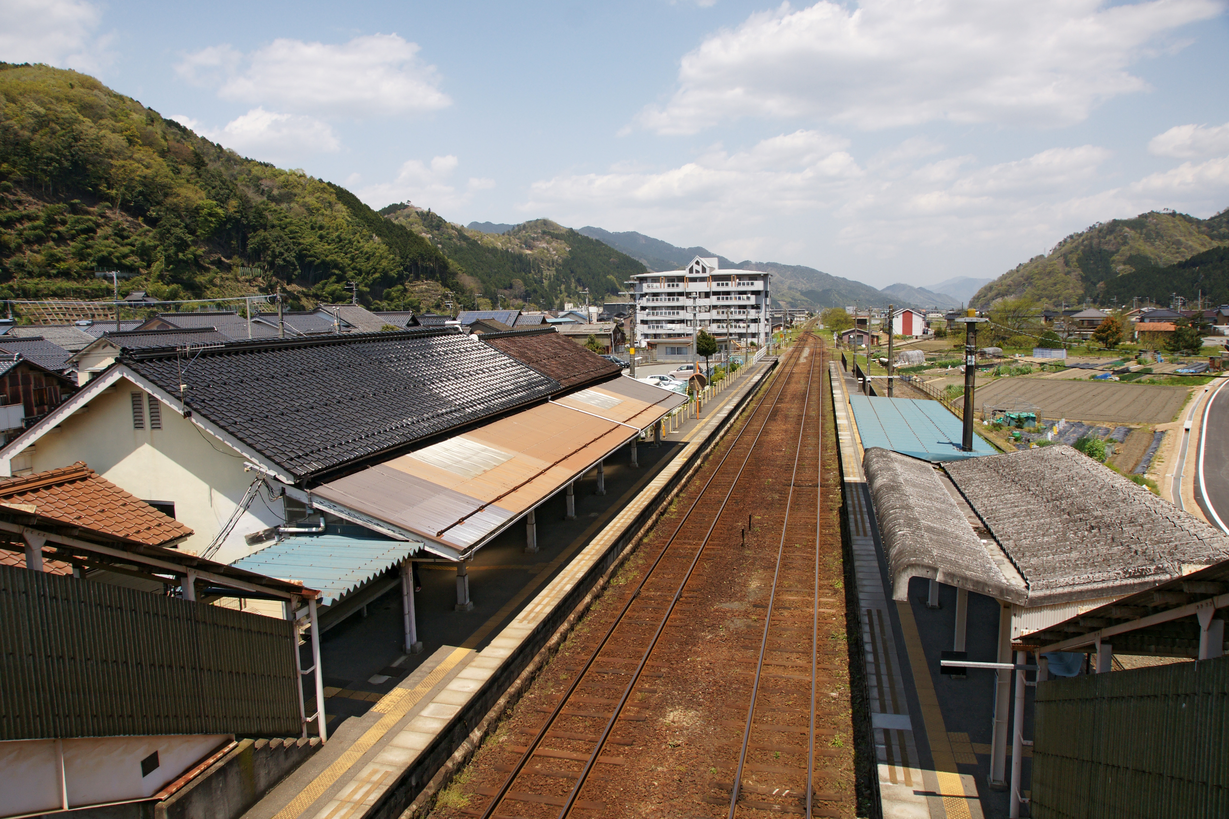 Nii Station in Asago, Hyogo prefecture, Japan.